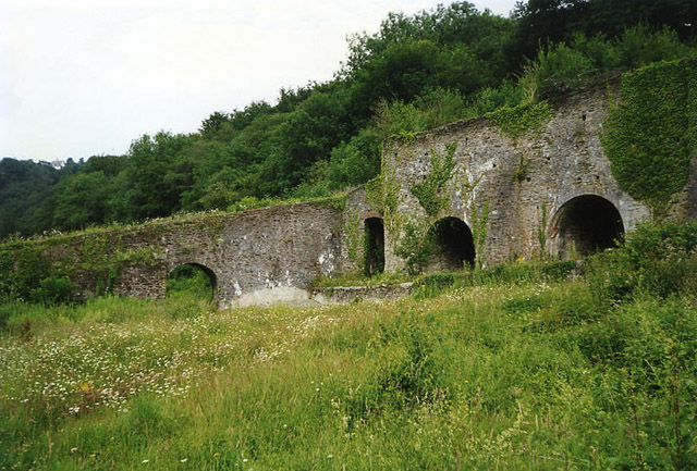 Gulworthy: limekilns at Newquay